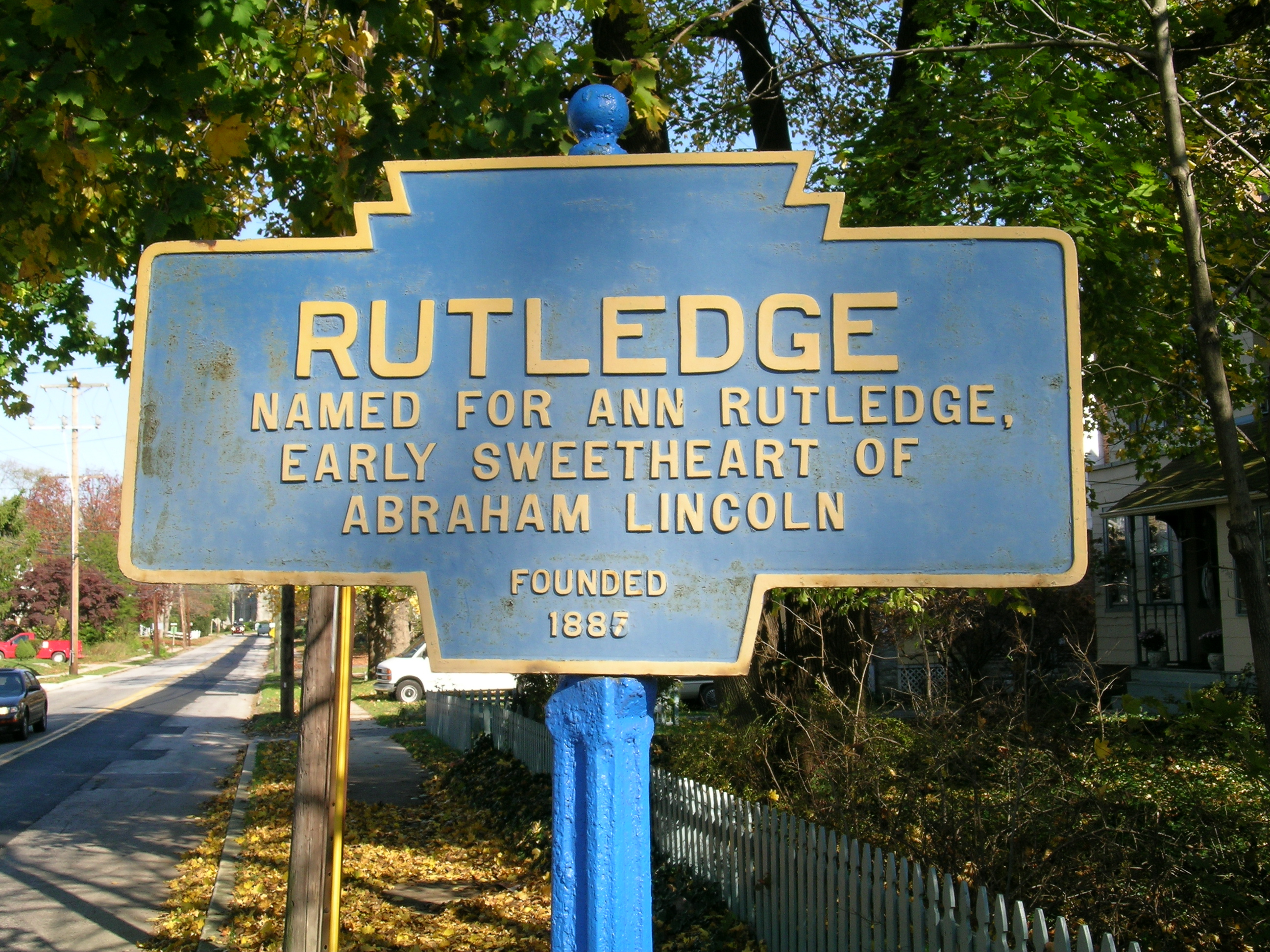 This is the Keystone Marker that greets you as you approach the Borough of Rutledge, Pennsylvania from the south on Morton Avenue at the intersection of Swarthmore Avenue and South Morton Avenue. It erroneously states that the Borough was named after Ann Rutledge, a sweetheart of Abraham Lincoln. This is a myth.